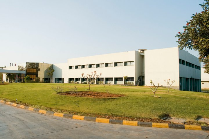 Dr. Reddys Finished Dosage